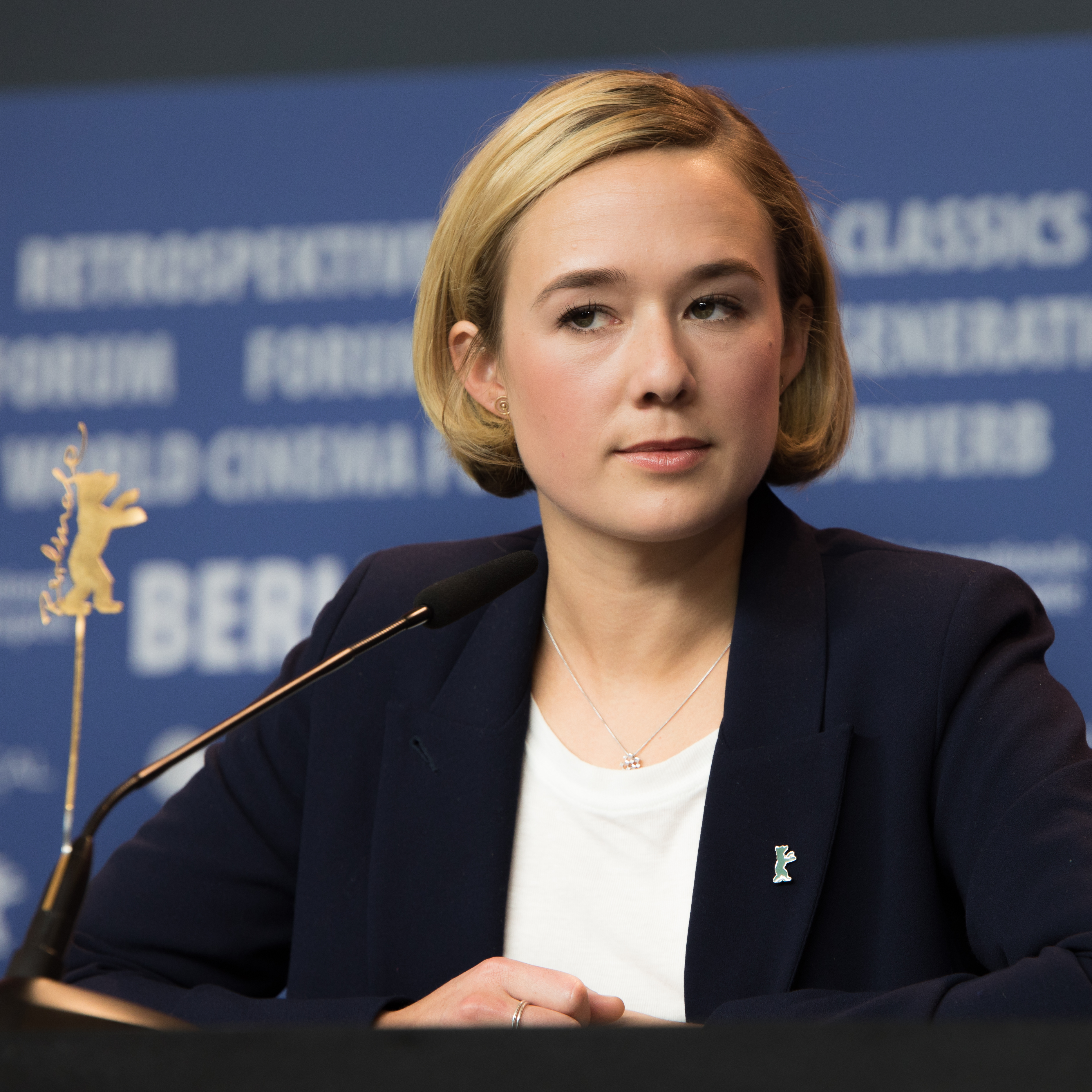 The Danish-Swedish actress Alba August at the press conference for the movie "Becoming Astrid", Berlinale 2018